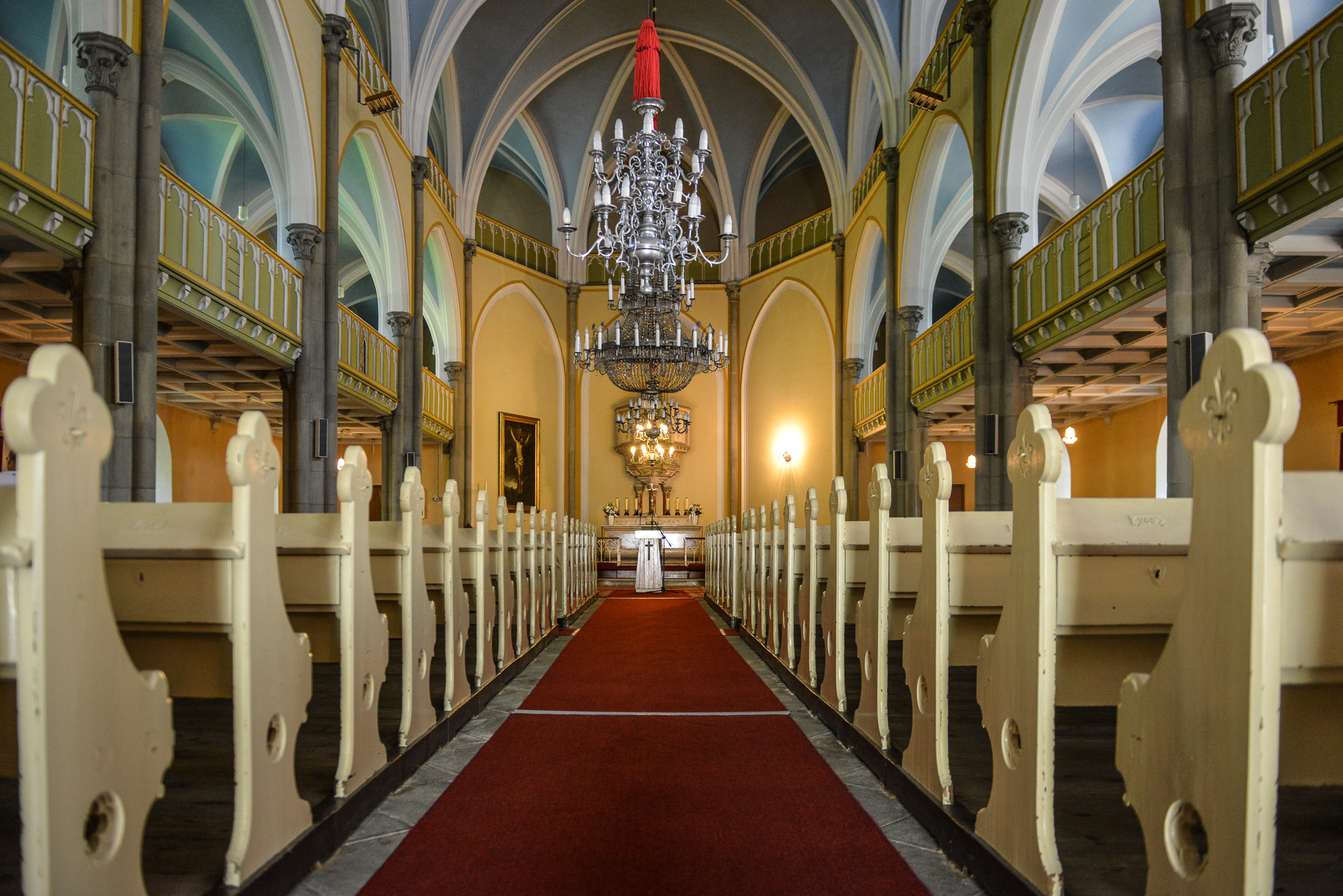 Lutheran Church of the Savior in Bielsko-Biala. Interior photography. Sacral architecture. Bielski Zion, Luther square.